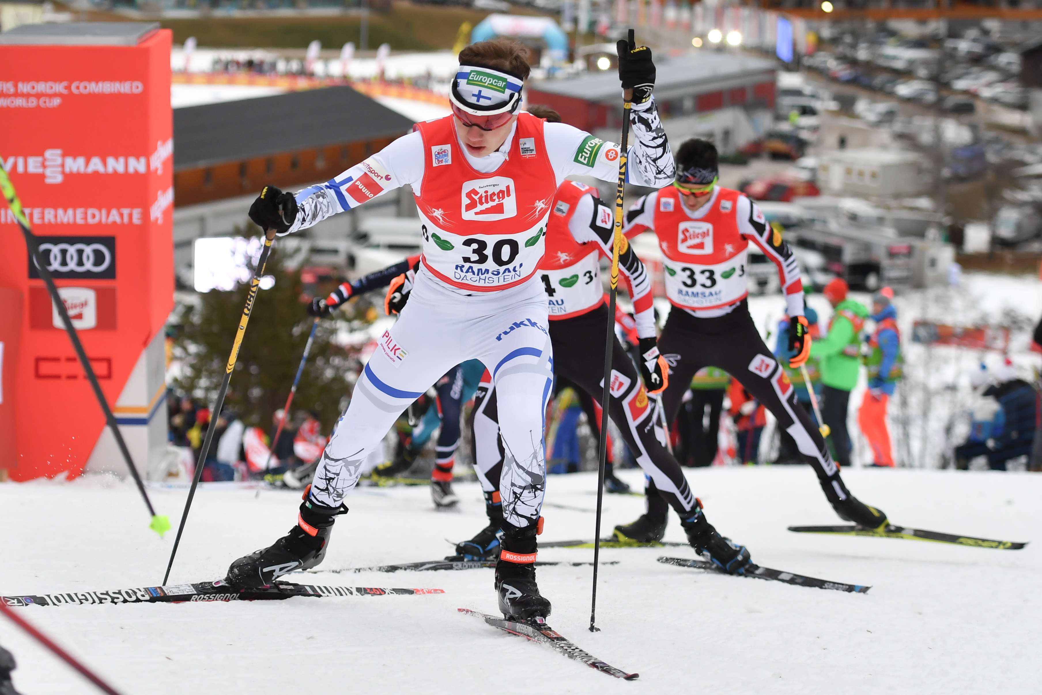 FIS World Cup Nordic Combined, Ramsau/Austria, 2016-12-16 to 2016-12-18.